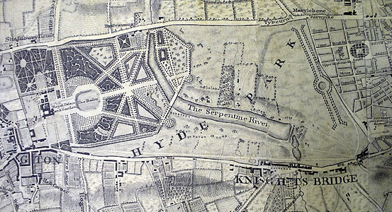 Detail from 1746 John Rocque London Map showing Hyde Park